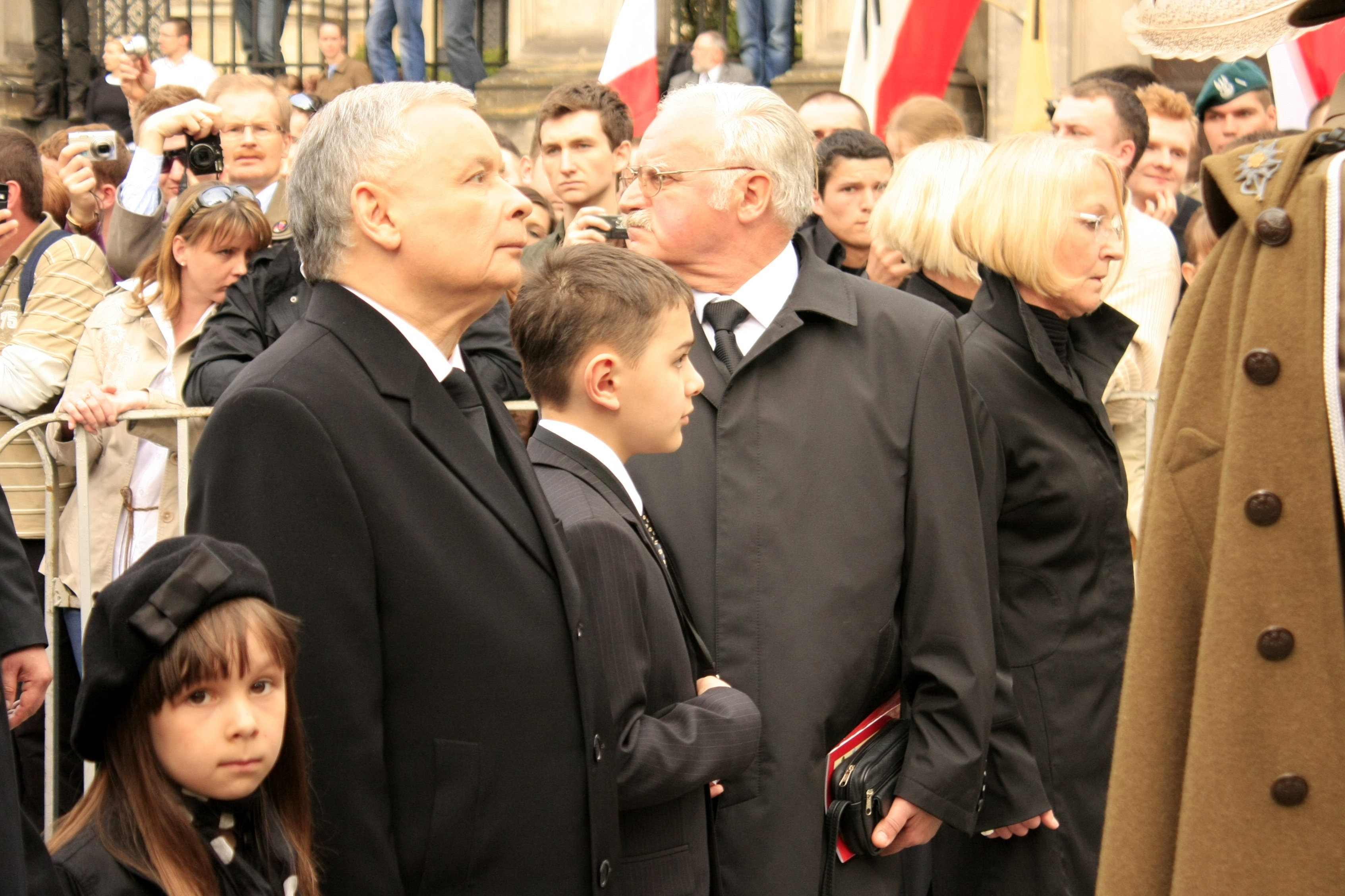 Jarosław Kaczyński in Kraków attending public commemorations in the aftermath of the Polish Air Force aircraft crash in Smolensk